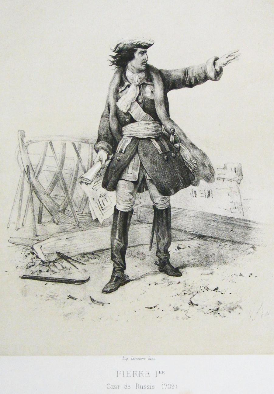 Russian tsar Peter I The Greate in 1709. French engraving of XIX c.